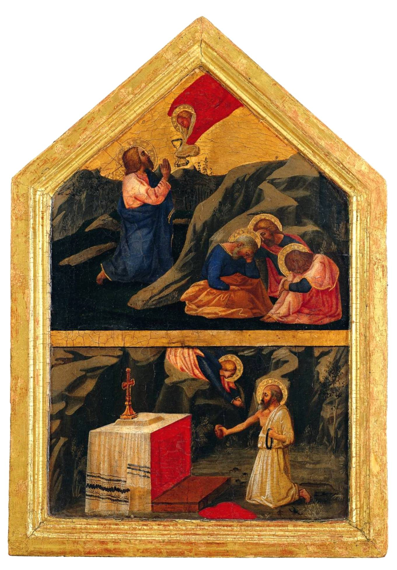 The Agony in the Garden.